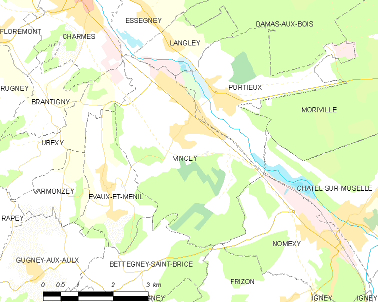 Map of French municipality Vincey